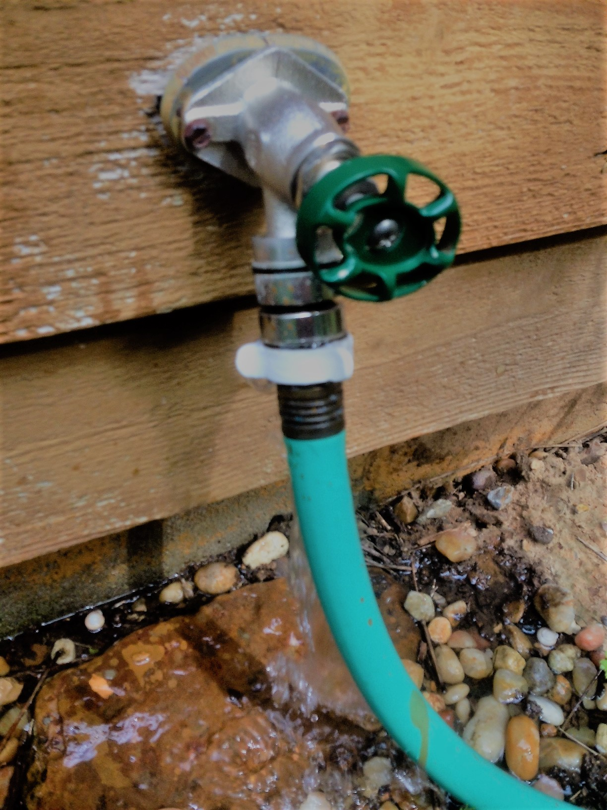 Water leaking from garden hose connection